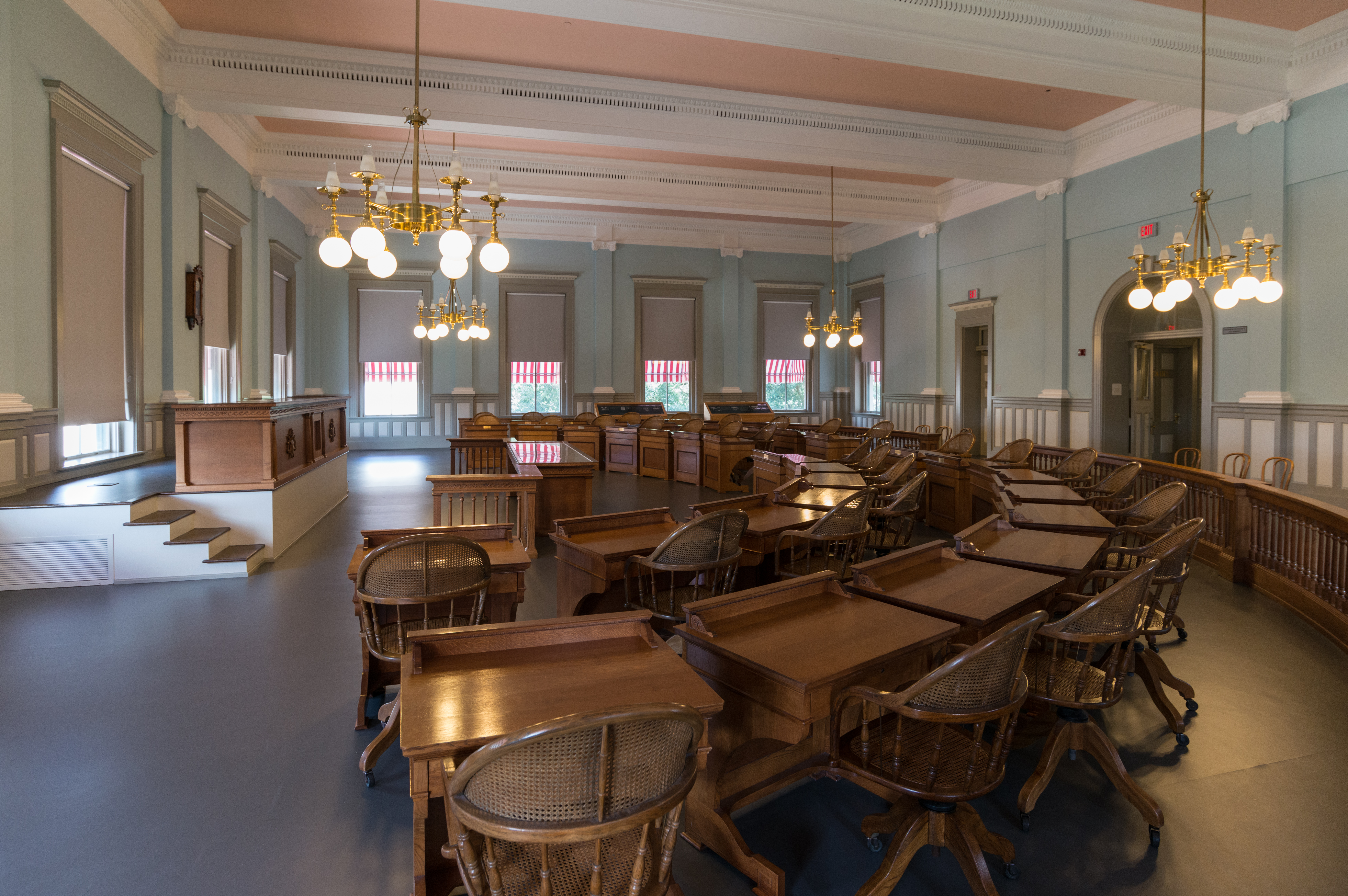 A view of the former Florida Senate chamber, Tallahassee